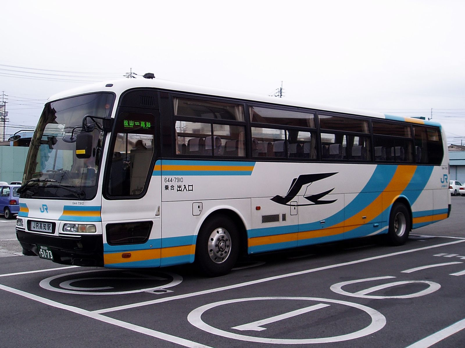 JR Shikoku Bus 644-7910 "Nangoku Express" Mitsubishi KC-MS829P at JR Shikoku Bus Matsuyama Branch